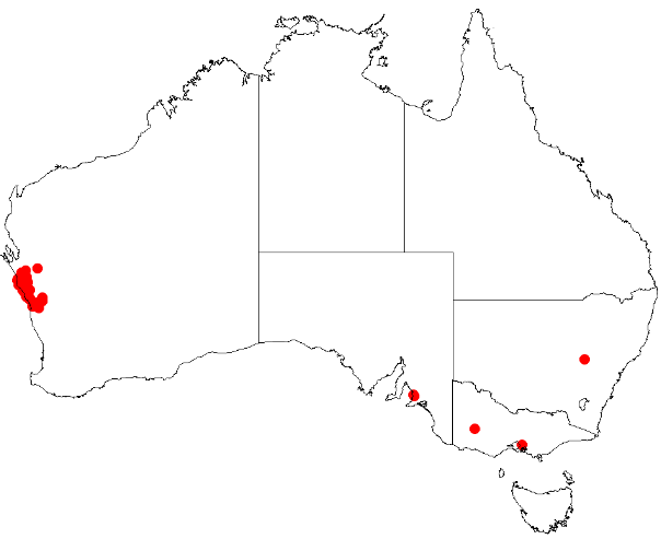 Hakea orthorrhyncha Occurrence data downloaded from AVH on 22 November 2018 using